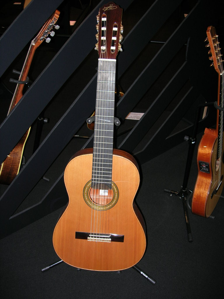 7-string guitar on display.